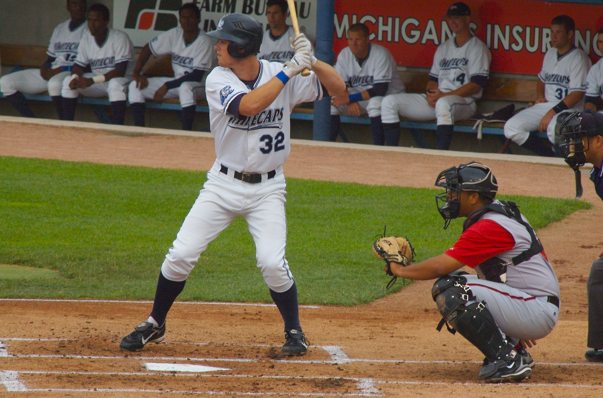 Brennan Boesch at bat for the West Michigan Whitecaps in a game against the Lansing Lugnuts on June 28, 2007.